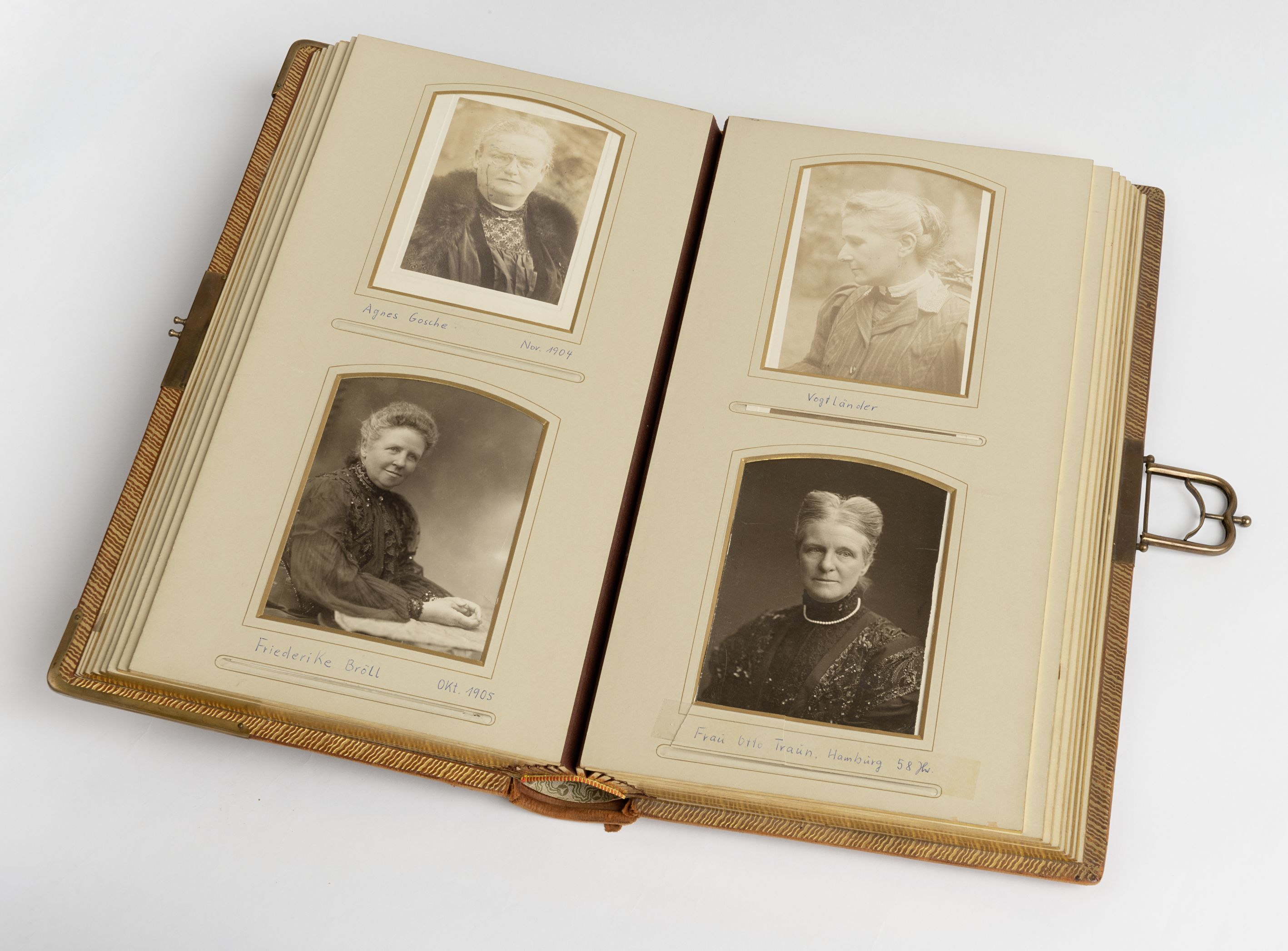 Album of Allgemeiner Deutscher Frauenverband (Universal German Women's Association) with photos of main activists, photo album, leather, cardboard, photo paper, about 1900. The open book shows photos of Agnes Gosche (top left), Friederike Bröll (bottom left), a Mrs. Vogtländer (top right) and Antonie Traun (bottom right). Photo of album in repository of Archiv der deutschen Frauenbewegung (Archive of German Women's Movement), Kassel, Signature NL-K-08; 39. Photographer: Horst Ziegenfusz on behalf of Historisches Museum Frankfurt (Historical Museum Frankfurt). Published in Dorothee Linnemann (ed.): Damenwahl! 100 Jahre Frauenwahlrecht. Begleitbuch zur Ausstellung. Societäts-Verlag, Frankfurt am Main 2018, ISBN 978-3-95542-306-3, p. 70.